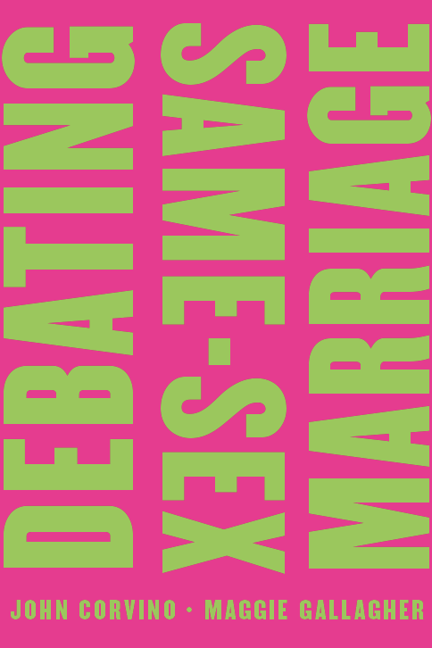 This is the front cover of Debating Same-Sex Marriage, a book co-written by John Corvino and Maggie Gallagher.